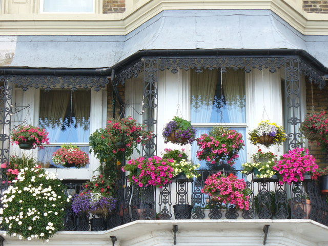 Paragon Balcony These wrought-iron balconies are a common feature on the seafront Regency terraced housing in east Thanet.